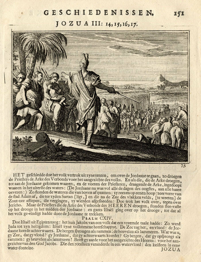 Israelites Crossing the Jordan River while carrying the Ark of the Covenant on Yom HaAliyah, 10th of Nisan.